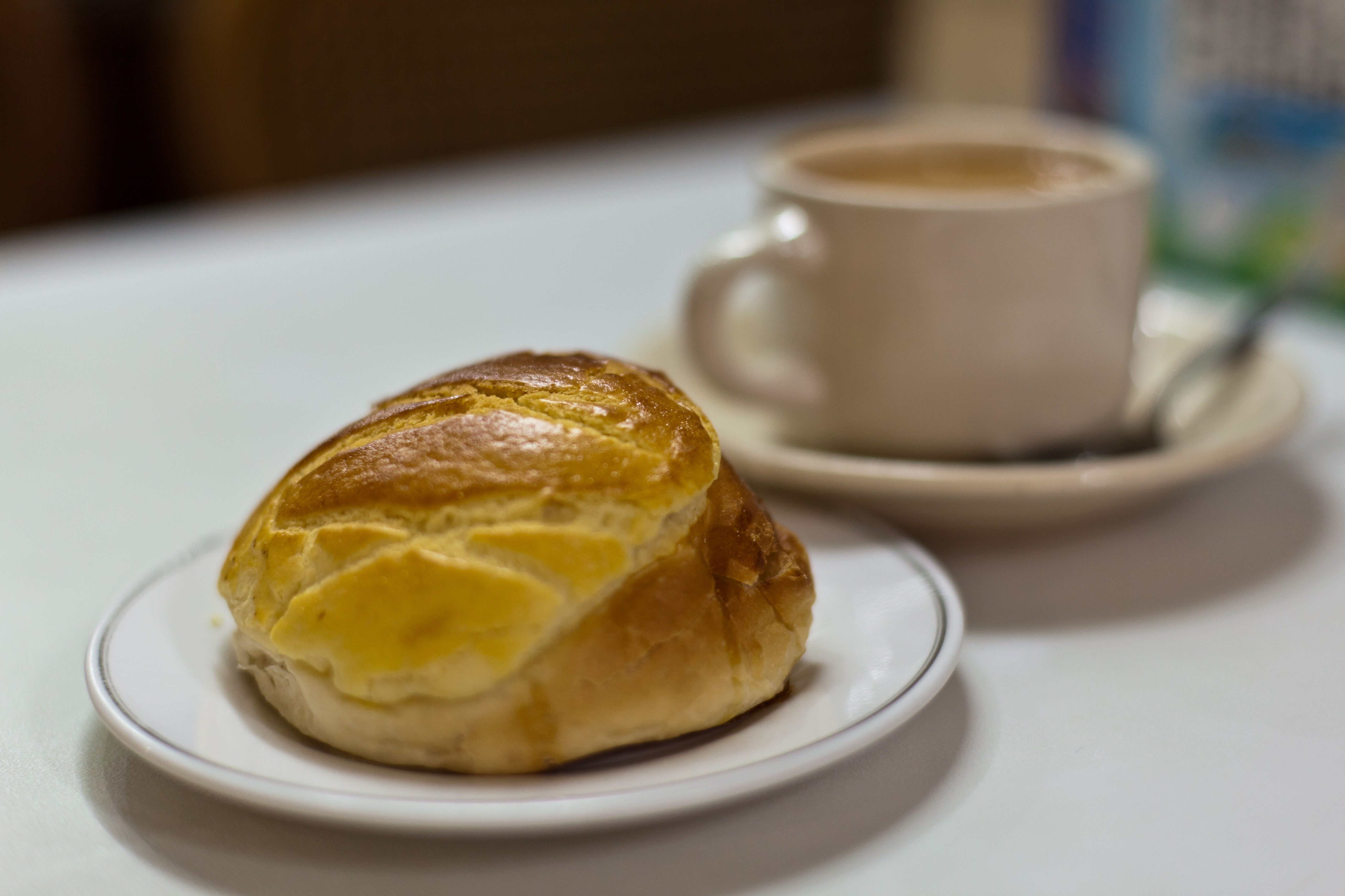 樂香園 (蛇竇) 下午茶: 菠蘿油, 奶茶Afternoon tea: Pineapple bun and milk tea